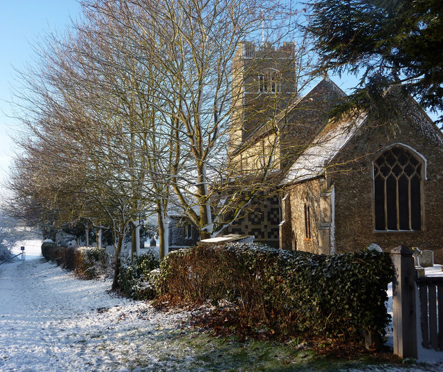 Parish church of St John the Divine, Elmswell, Suffolk, seen from the east in snow